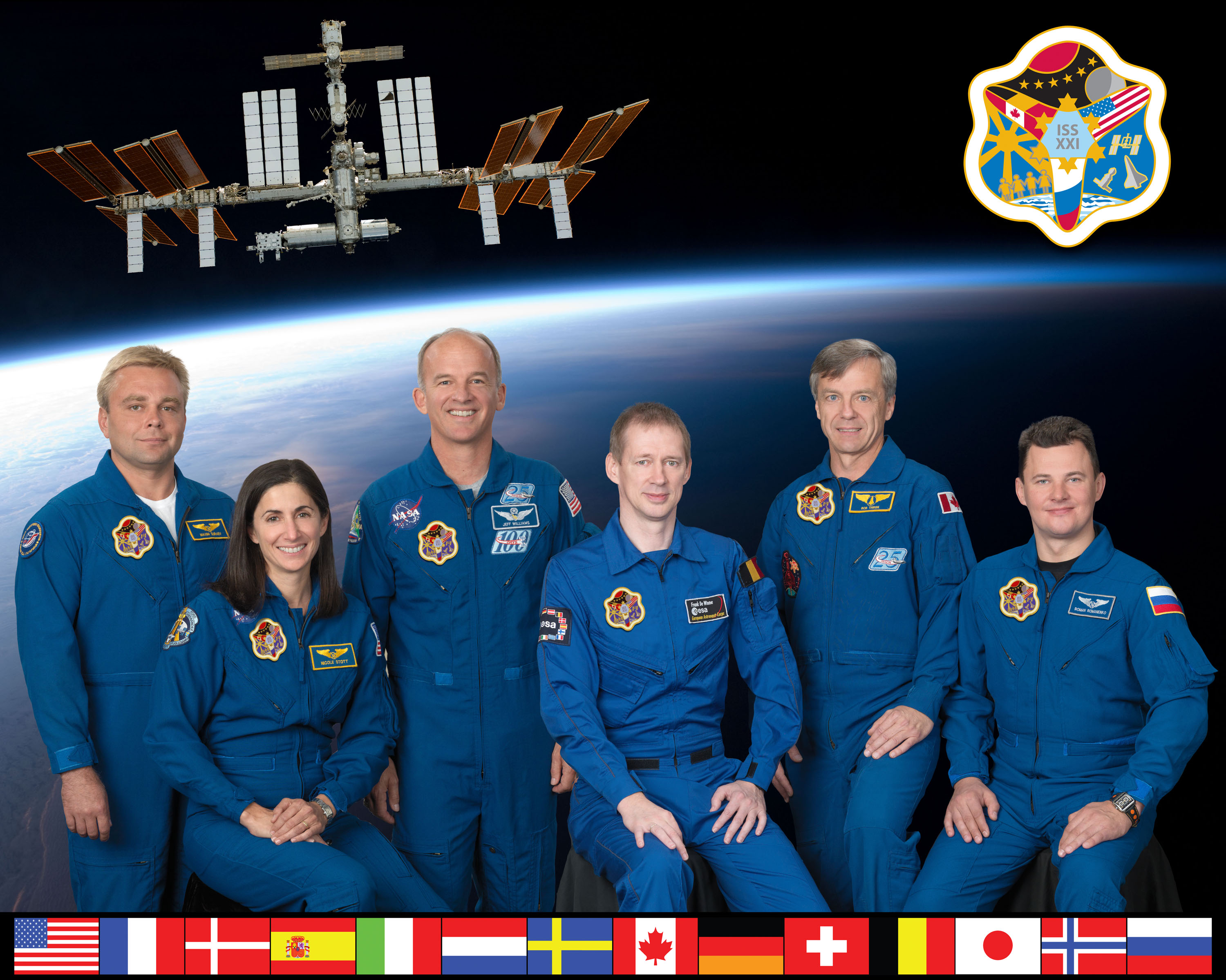 Expedition 21 crew members take a break from training at NASA's Johnson Space Center to pose for a crew portrait. Pictured on the front row are European Space Agency astronaut Frank De Winne (center), commander; NASA astronaut Nicole Stott and Russian cosmonaut Roman Romanenko, both flight engineers. Pictured on the back row (from the left) are Russian cosmonaut Maxim Suraev, NASA astronaut Jeffrey Williams and Canadian Space Agency astronaut Robert Thirsk, all flight engineers.